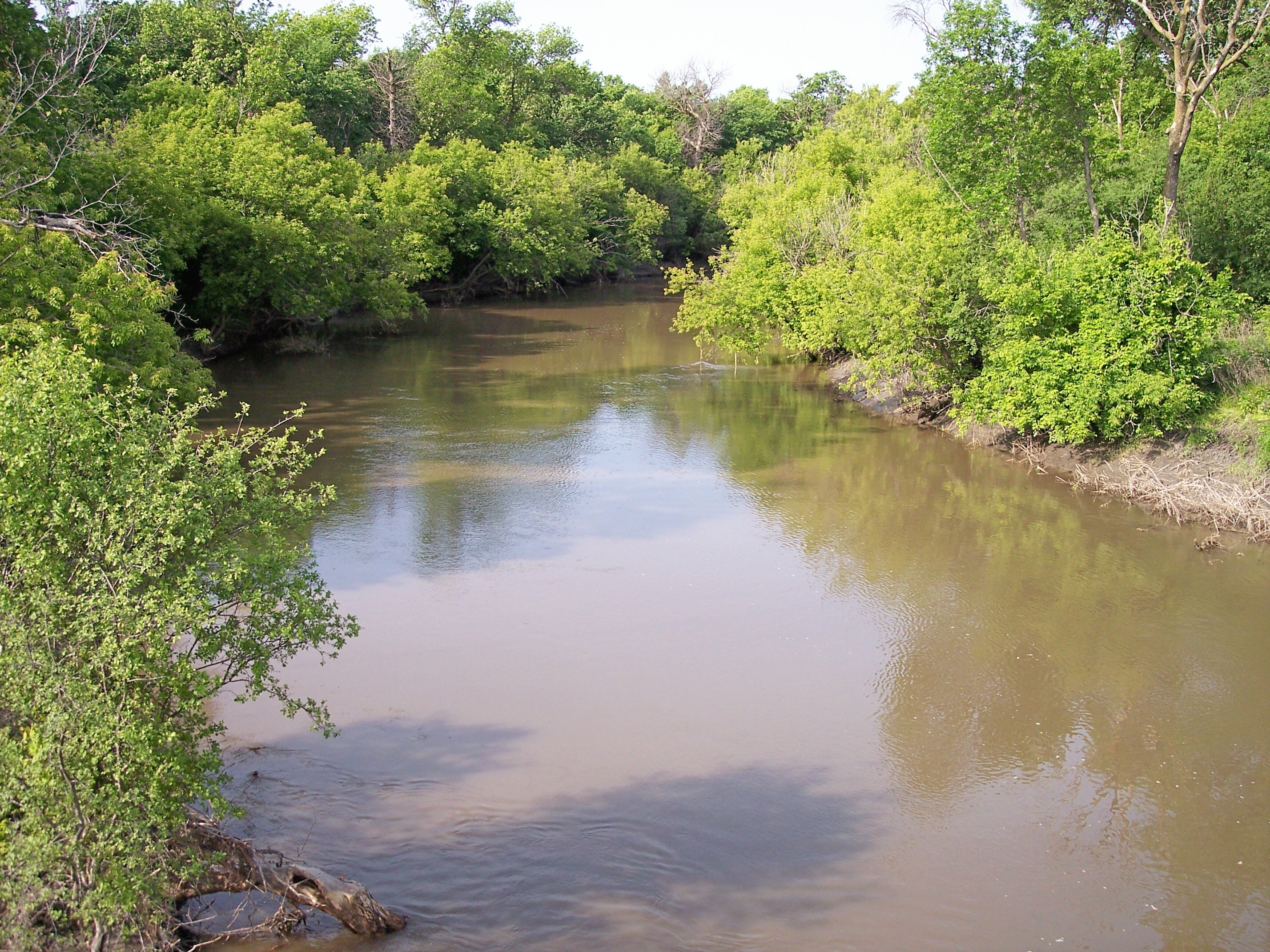 The Wild Rice River northwest of Abercrombie, North Dakota, as viewed from County Road 4